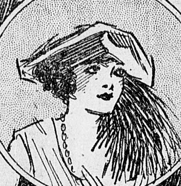 Mary Philips (January 23, 1901 – April 22, 1975) was an American stage and film actress. This is a drawing that appeared in a newspaper. Original caption: Below, in circle-- Mary Philips, as Ina Heath, the cabaret dancer, for whom Clem Hawley jr. "steals the papers" On the couch--- Harry Beresford, as the Old Soak, who says his will power won't let him leave the stuff alone.